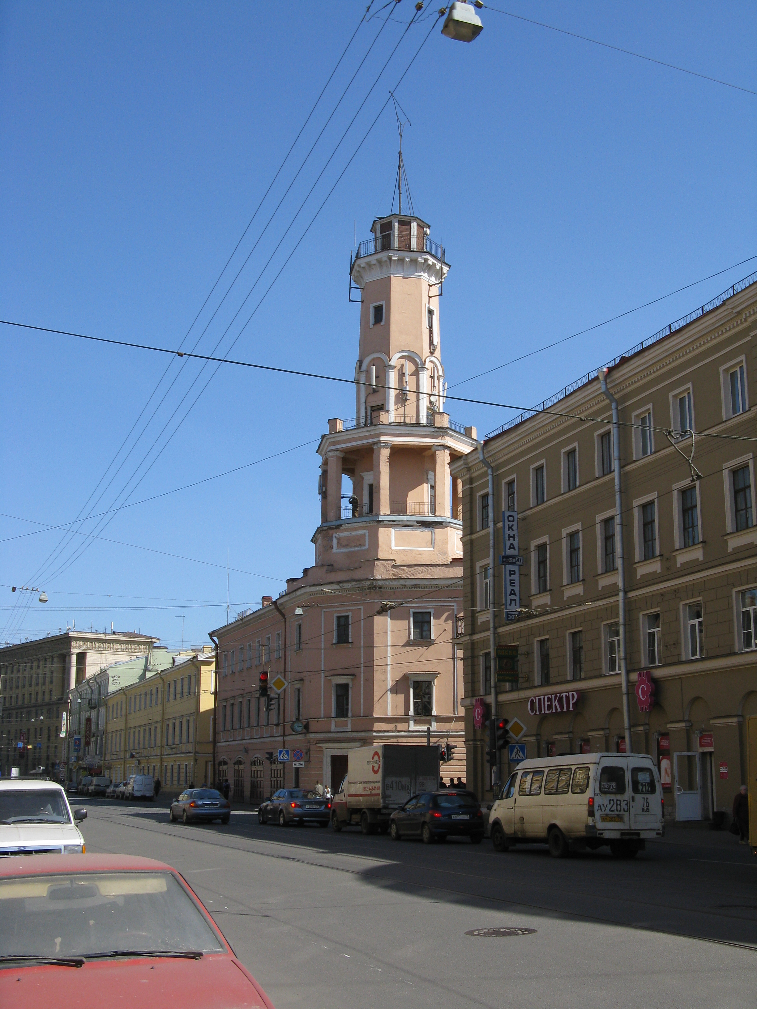 Sadovaya Street, 58/Bolshaya Podyacheskaya, 26, St-Petersburg. Police & Fire station